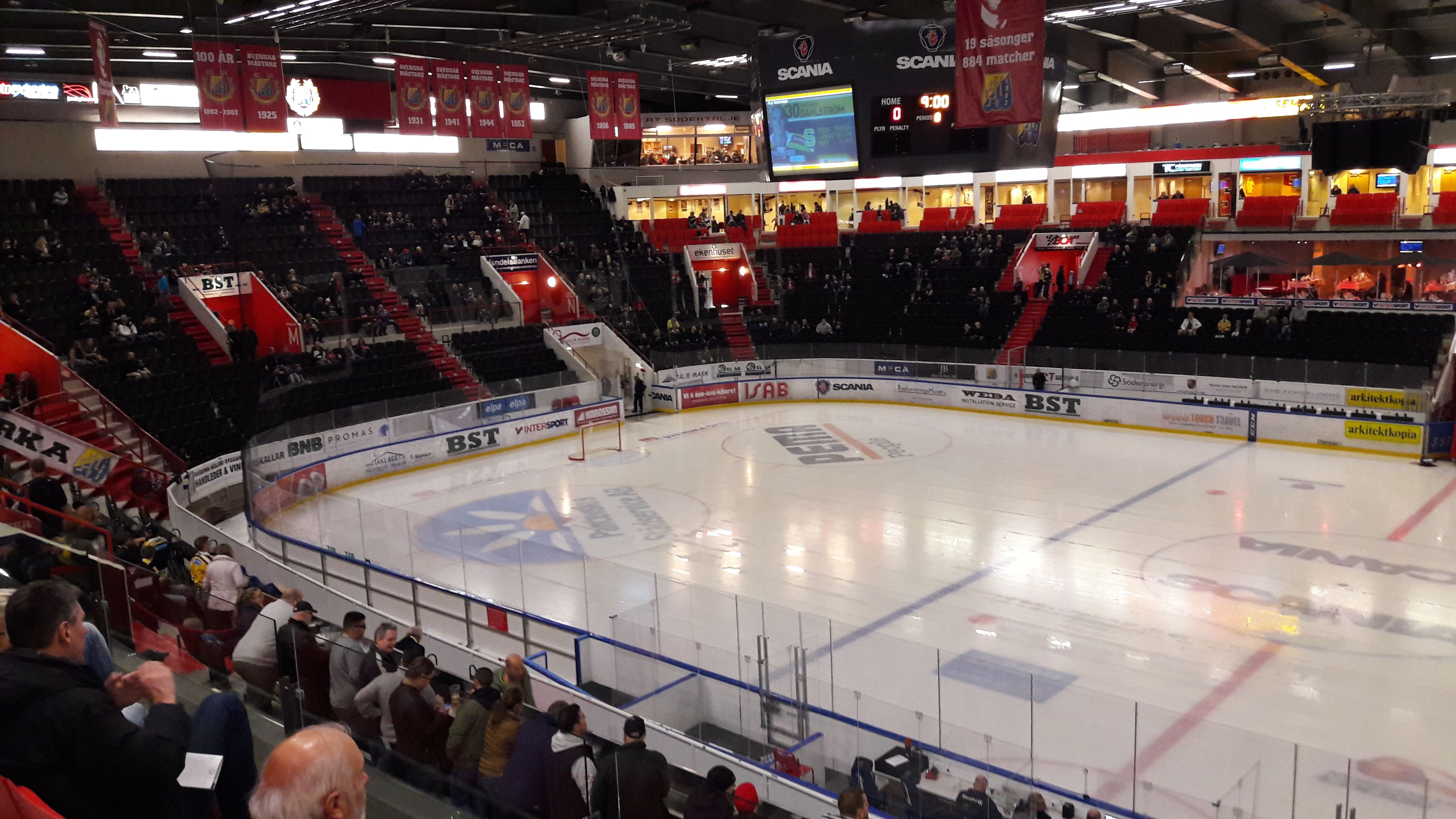 Interior of Scaniarinken 29-10-2016